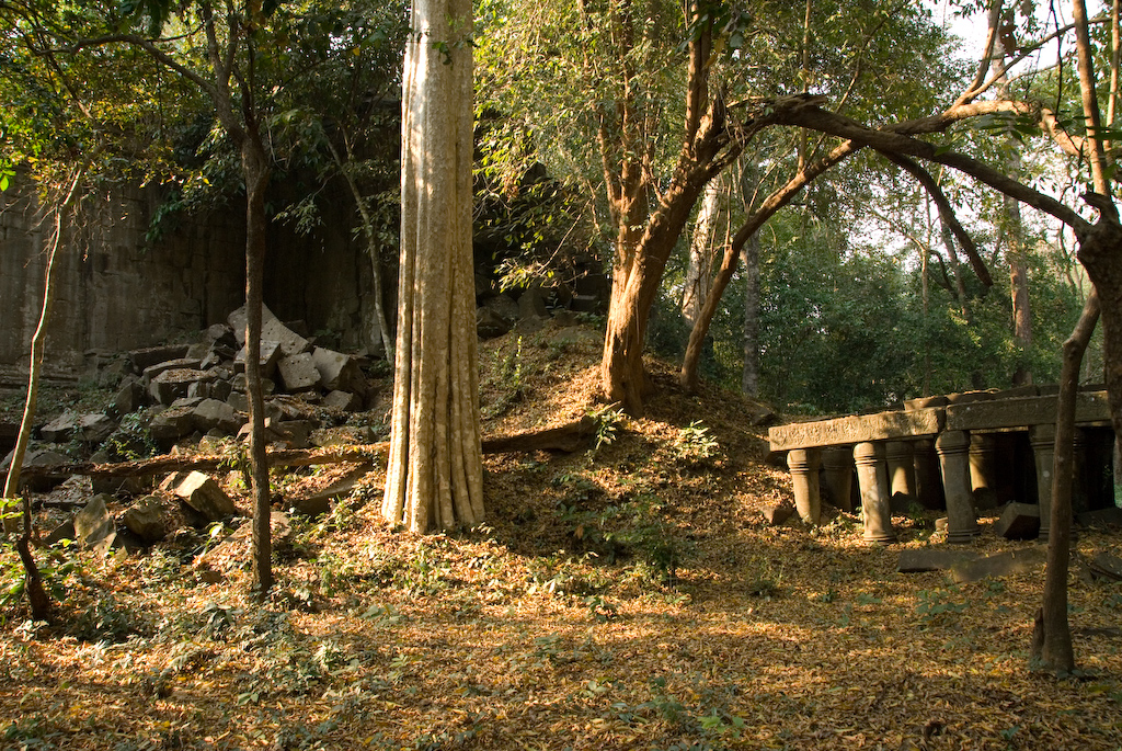 The Beng Mealea, a Hindu temple in Cambodia.